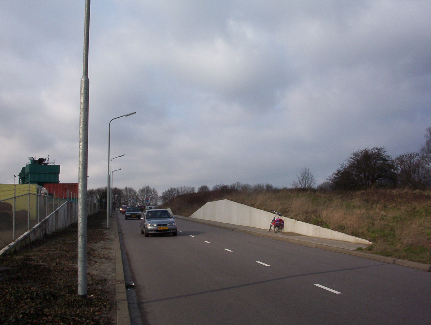 View from the bottom of the ringvaart dike in Cruquius looking at the traffic turning off the dike towards the Cruquius shopping district. The white cement walls have a purpose. They show the landscape form of a set of bunkers (covered with brambles and not visible) from the Stelling van Amsterdam. This set of bunkers represented the secondmost fore position of Fort Vijfhuizen and is called Fort Cruquius, although it was superceded by the first fore position and never expanded as planned. The spot is currently the subject of a heated argument between the town of Cruquius and the Province of North Holland. Cruquius would like to build on this land (and already have done, seeing the white wall on the left no longer represents the land form).